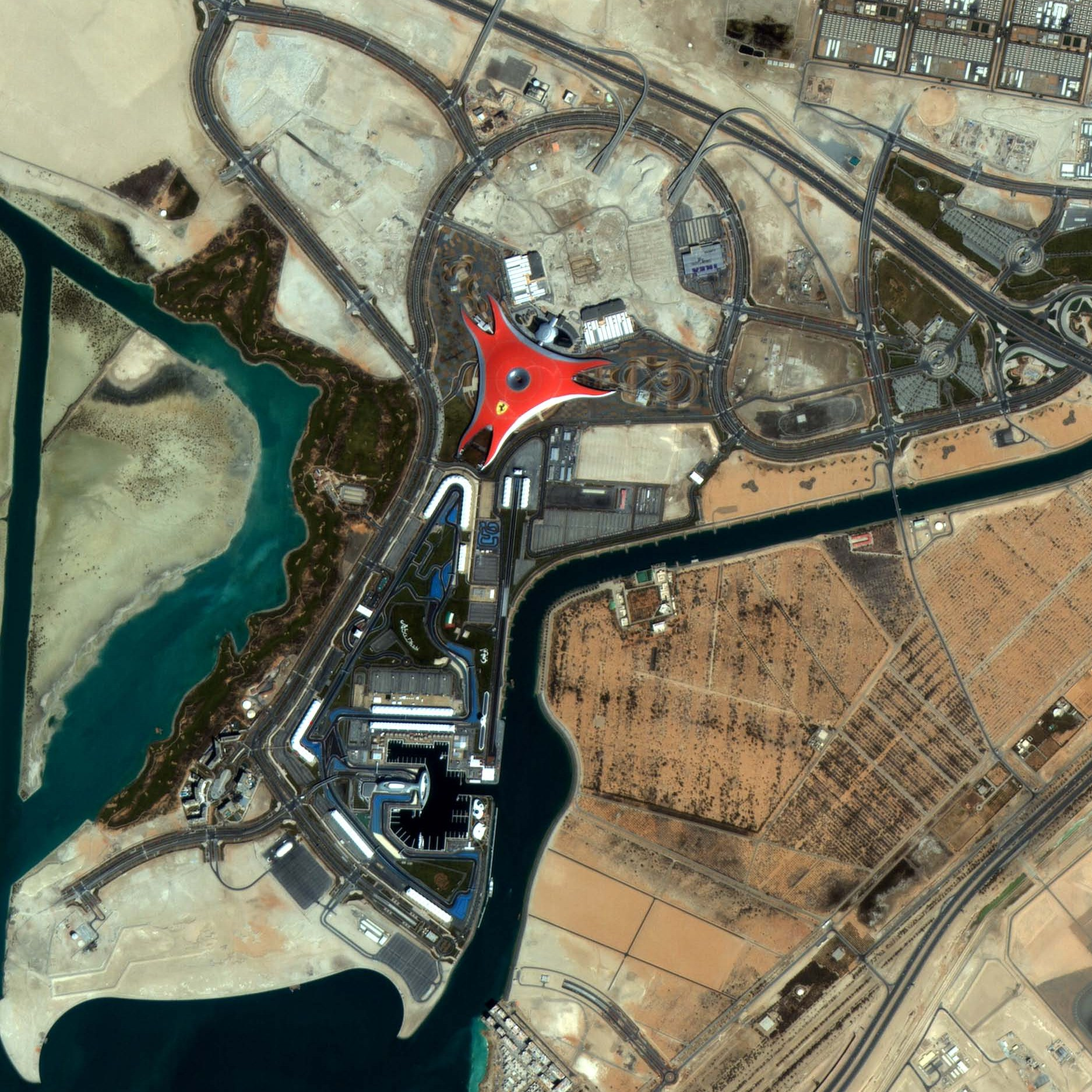 A pan-sharped multi-spectral image of Ferrari world in Abu Dhabi, captured by DubaiSat-1 (from EIAST, Dubai) on 21st of March 2011